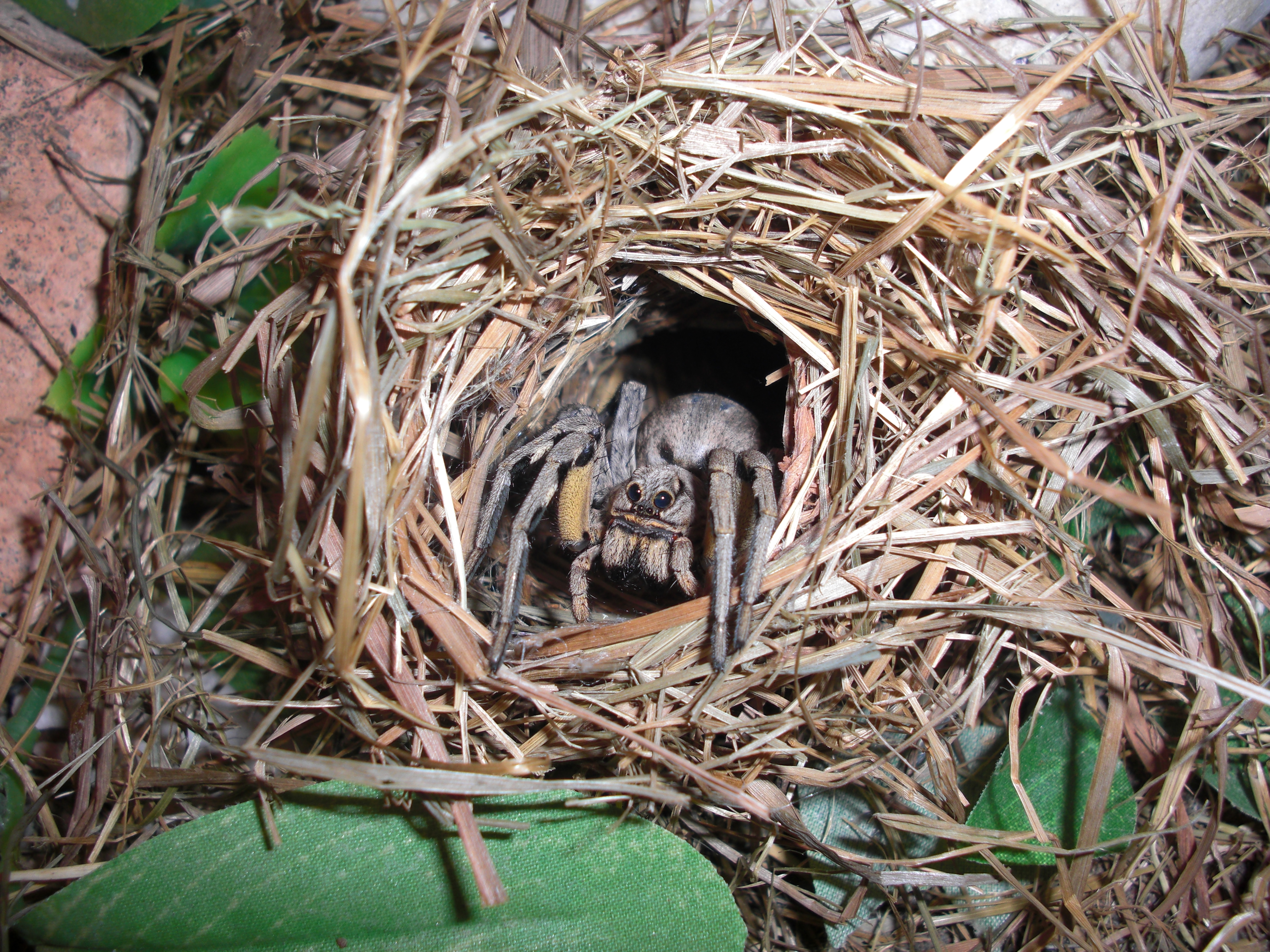 Wolf Spider waiting for food